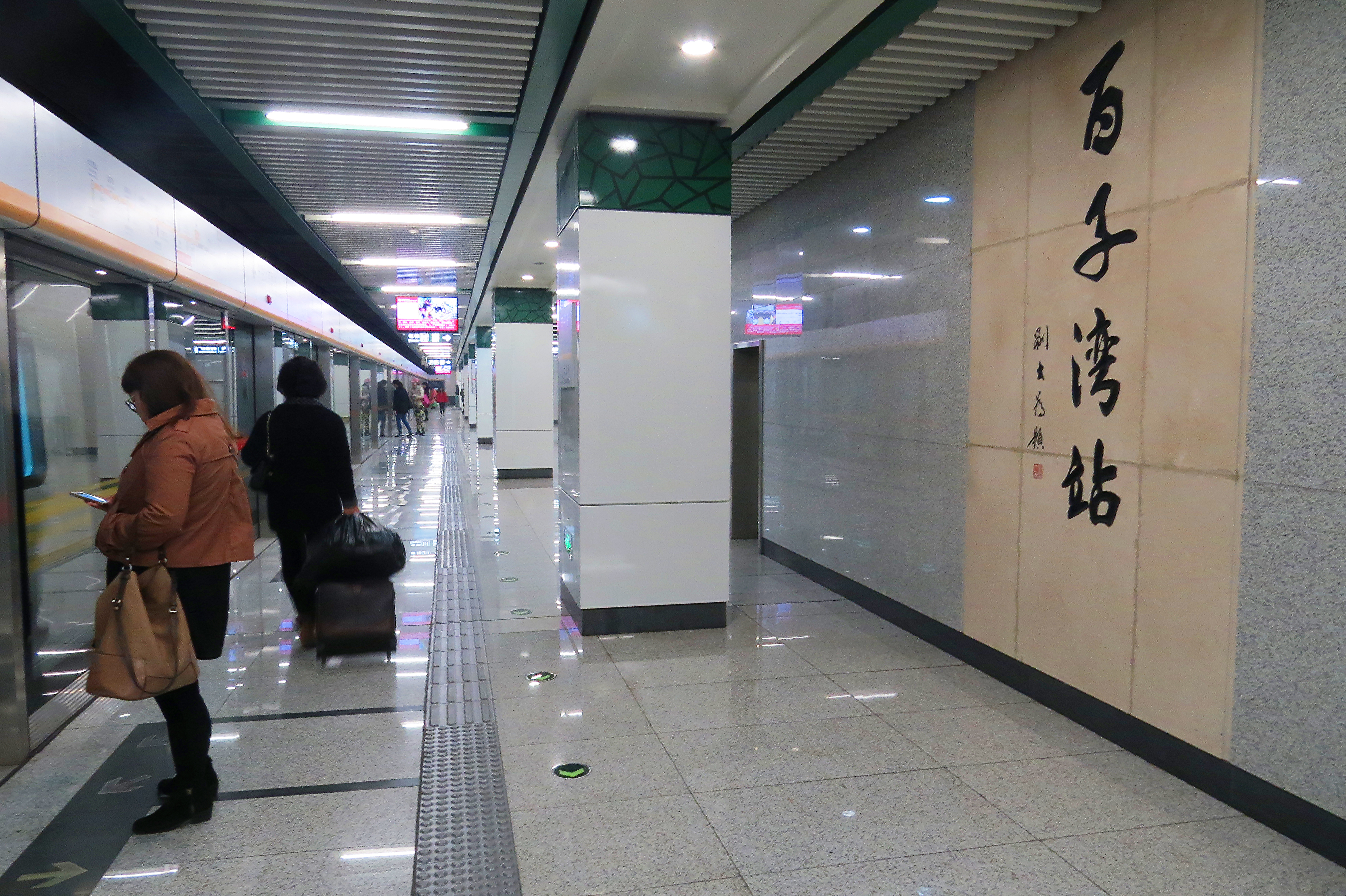 This train is bound for Beijing West Railway Station